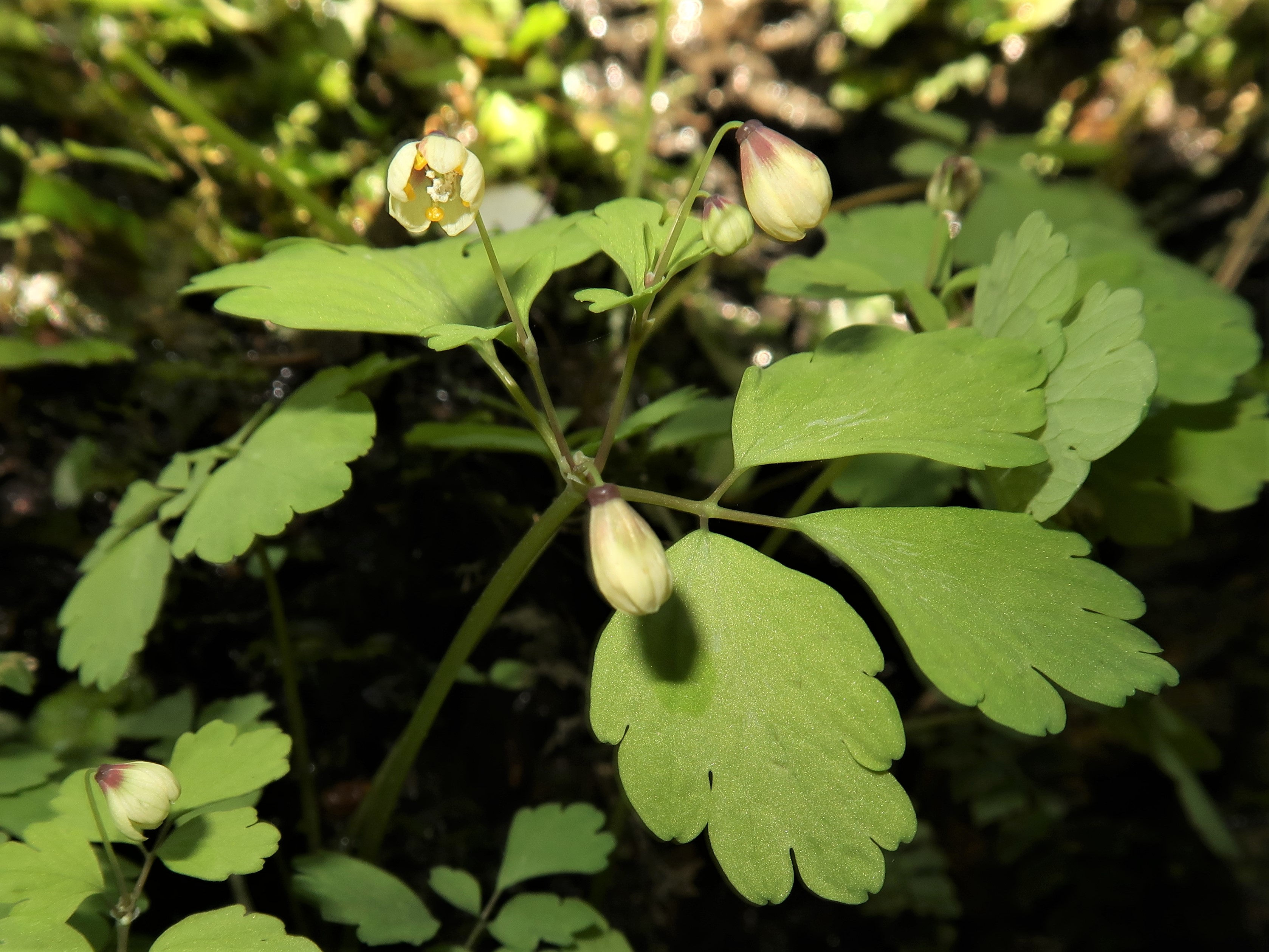 Dichocarpum sarmentosum, Mihama town, Fukui pref., Japan